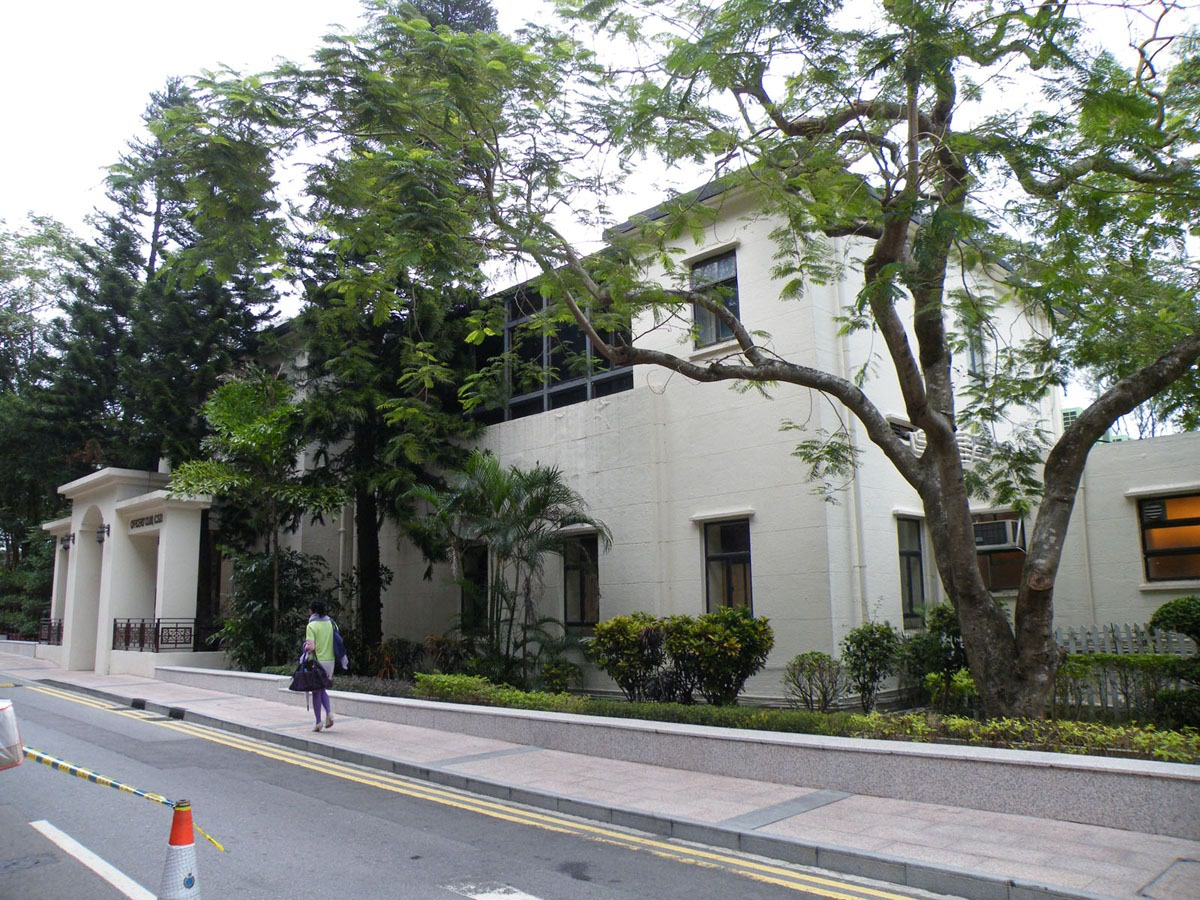 Hong Kong Correctional Services Officer Club